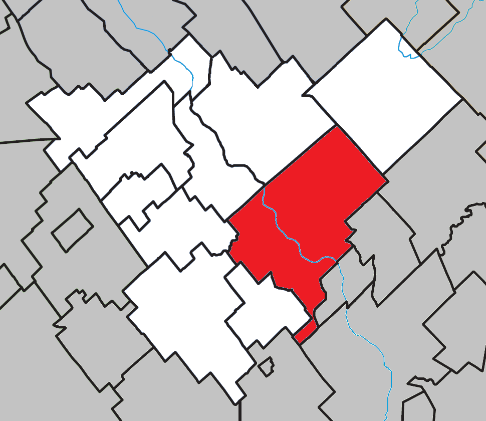 Location of Beauceville, Quebec within Robert-Cliche Regional County Municipality.